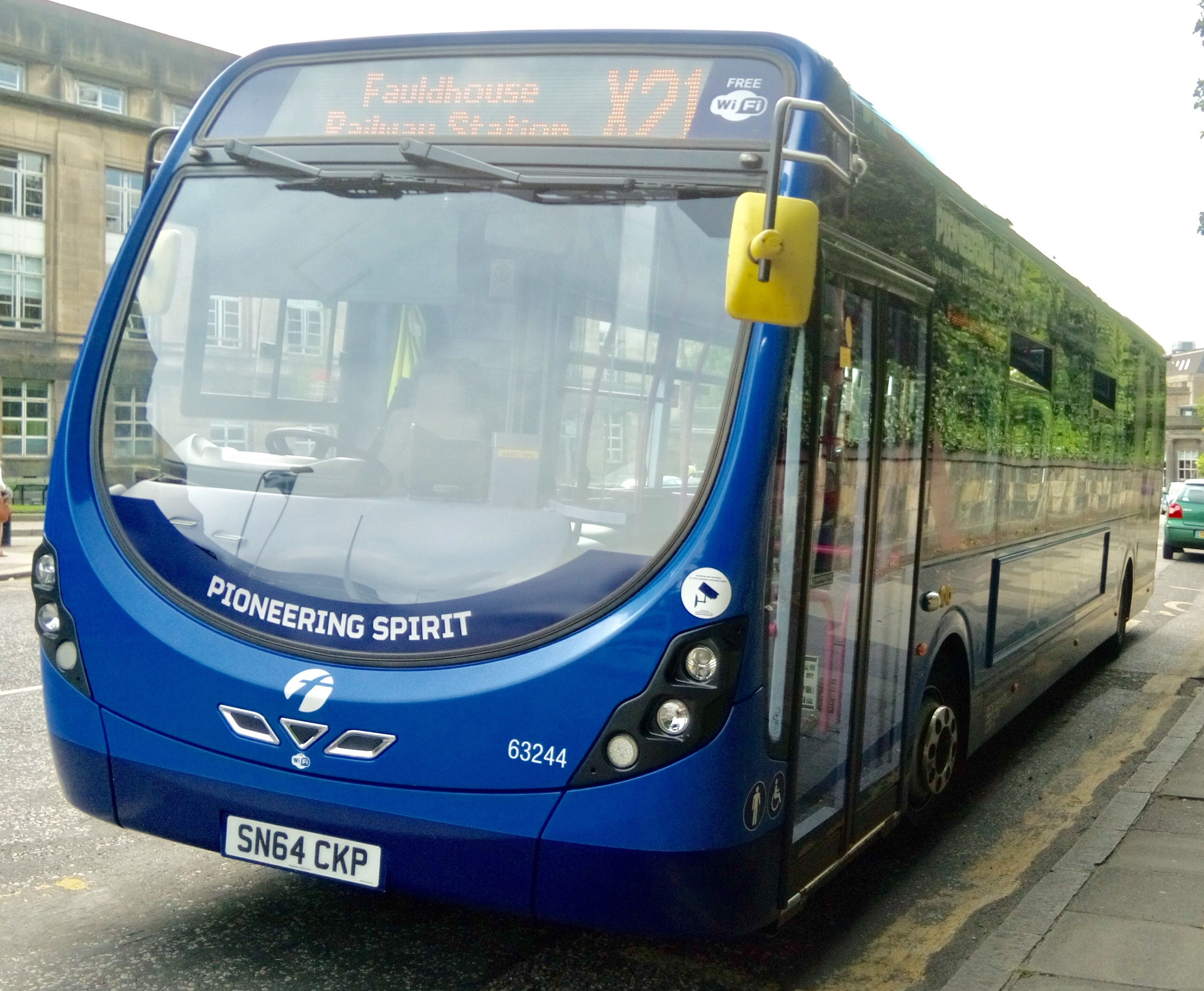 A blue Wright Streetline DF in Edinburgh,UK